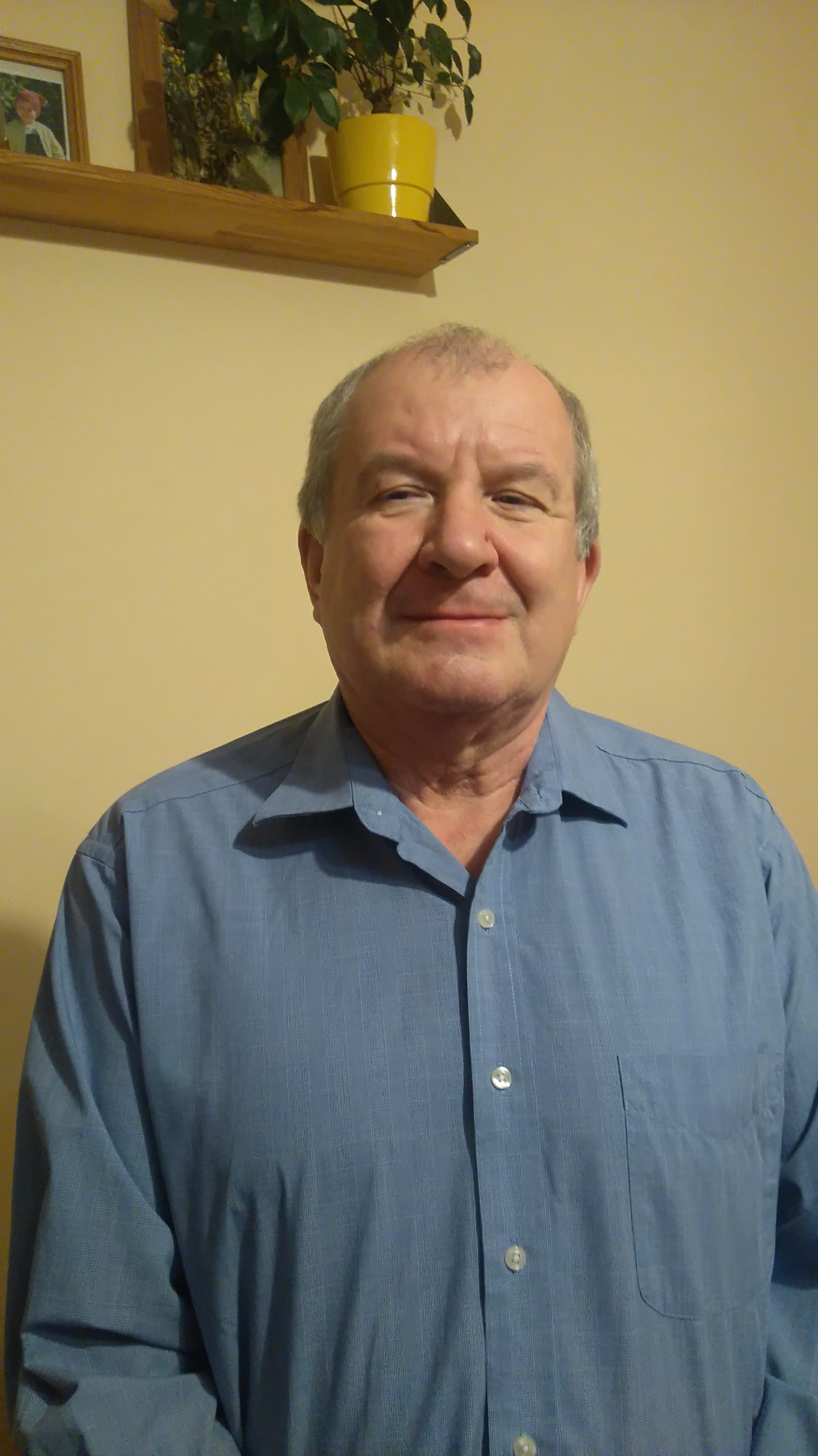 Professor Sławomir Podsiadło